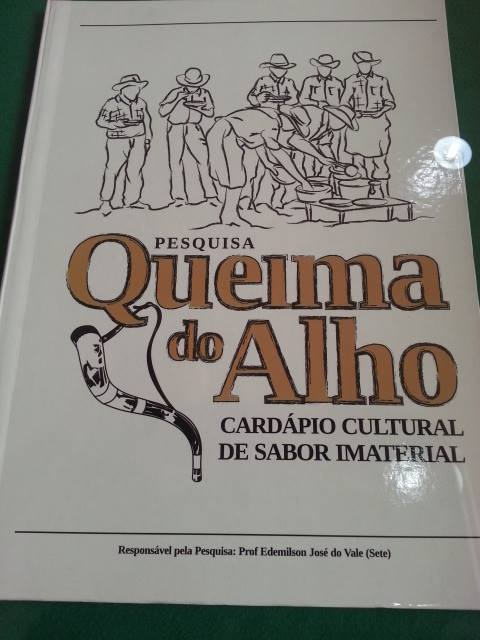 Museu do porque do peão Barretos